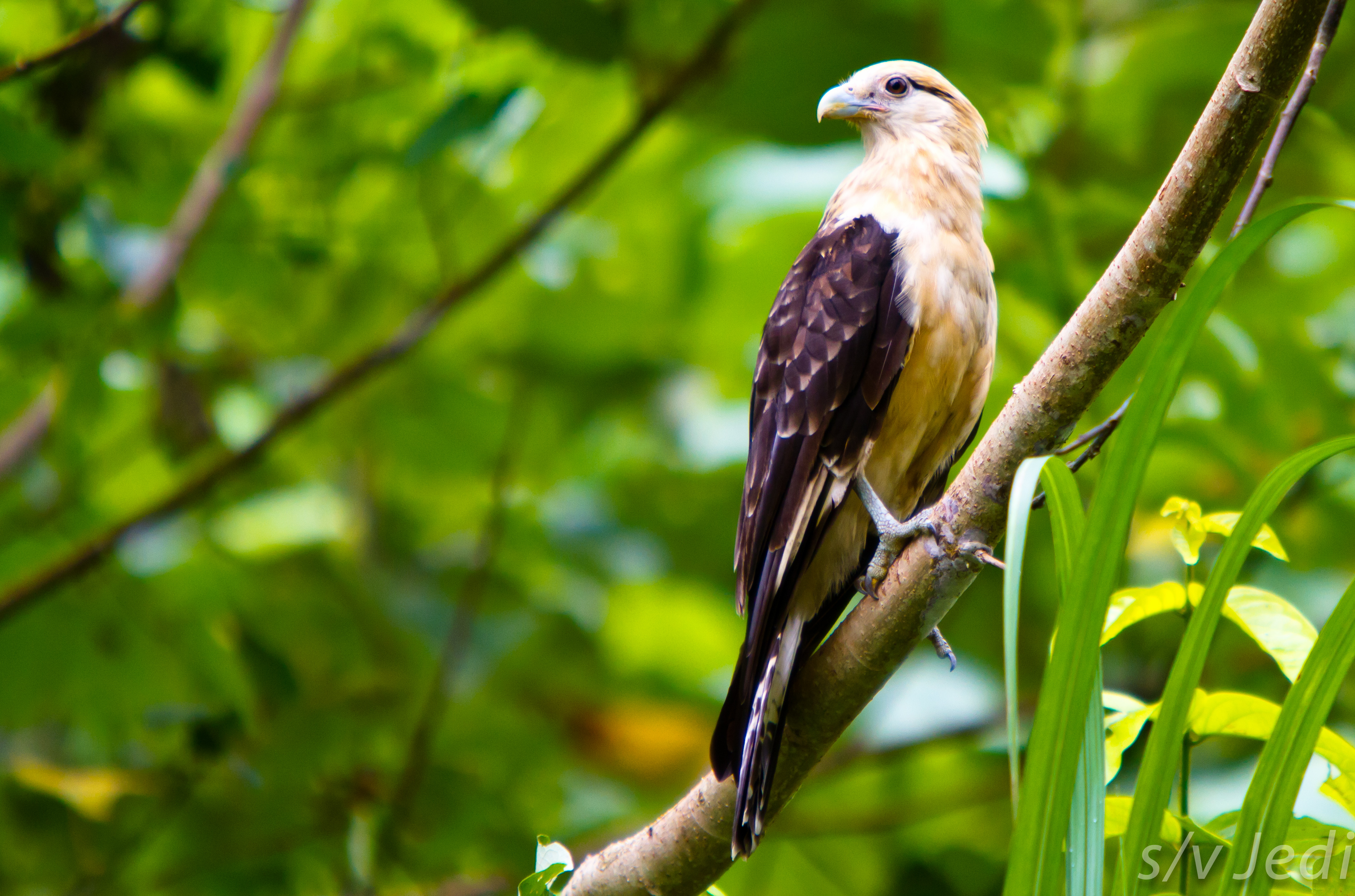 Yellow-headed Caracara from Colon province, Panama.